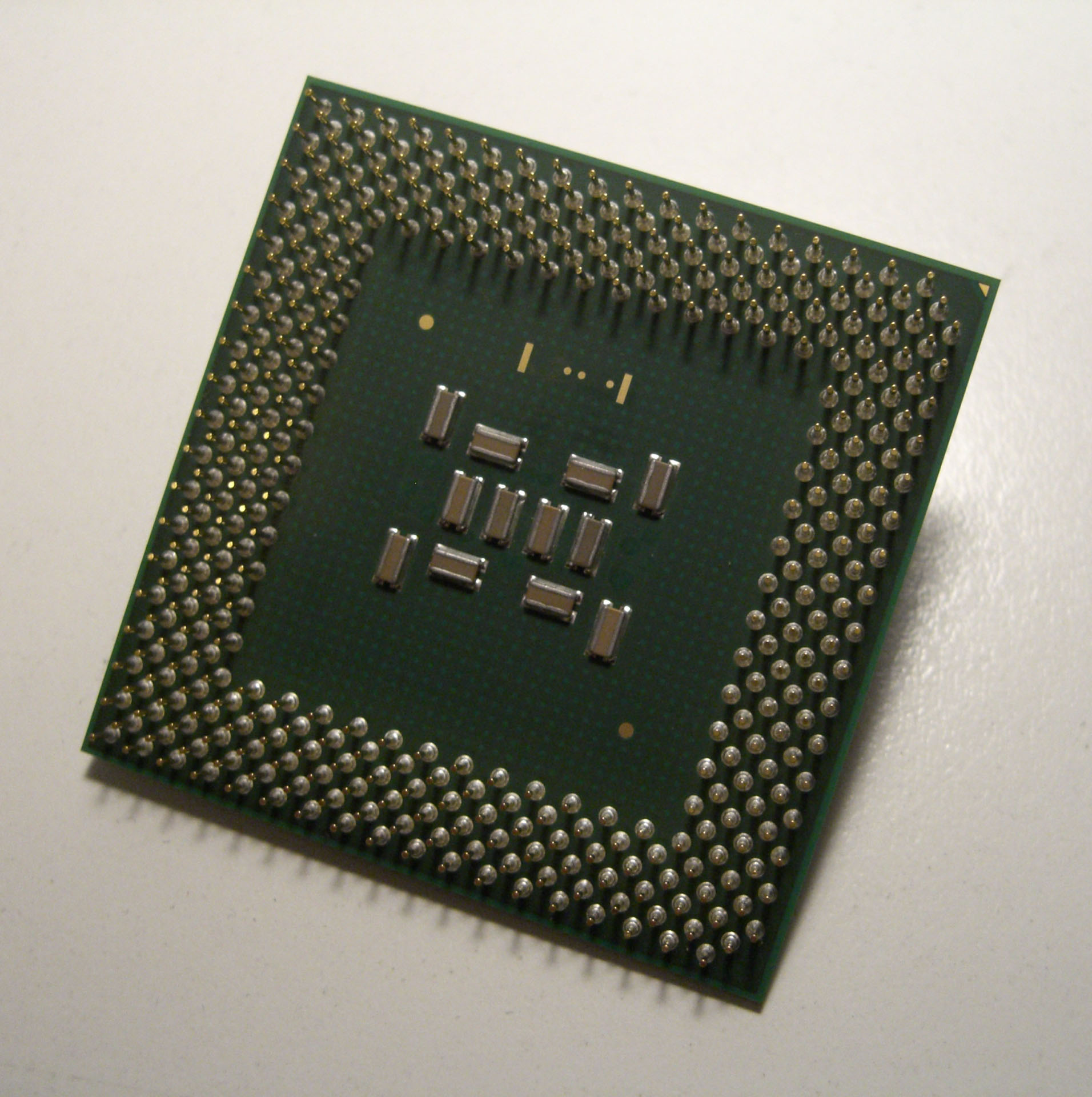 Intel PIII 600 core Coppermine (Socket 370). Processore Intel PIII 600 core Coppermine (Socket 370). Picture taken on Dec 25, 2005 by Rosco (For questions see my userpage in it.wiki)